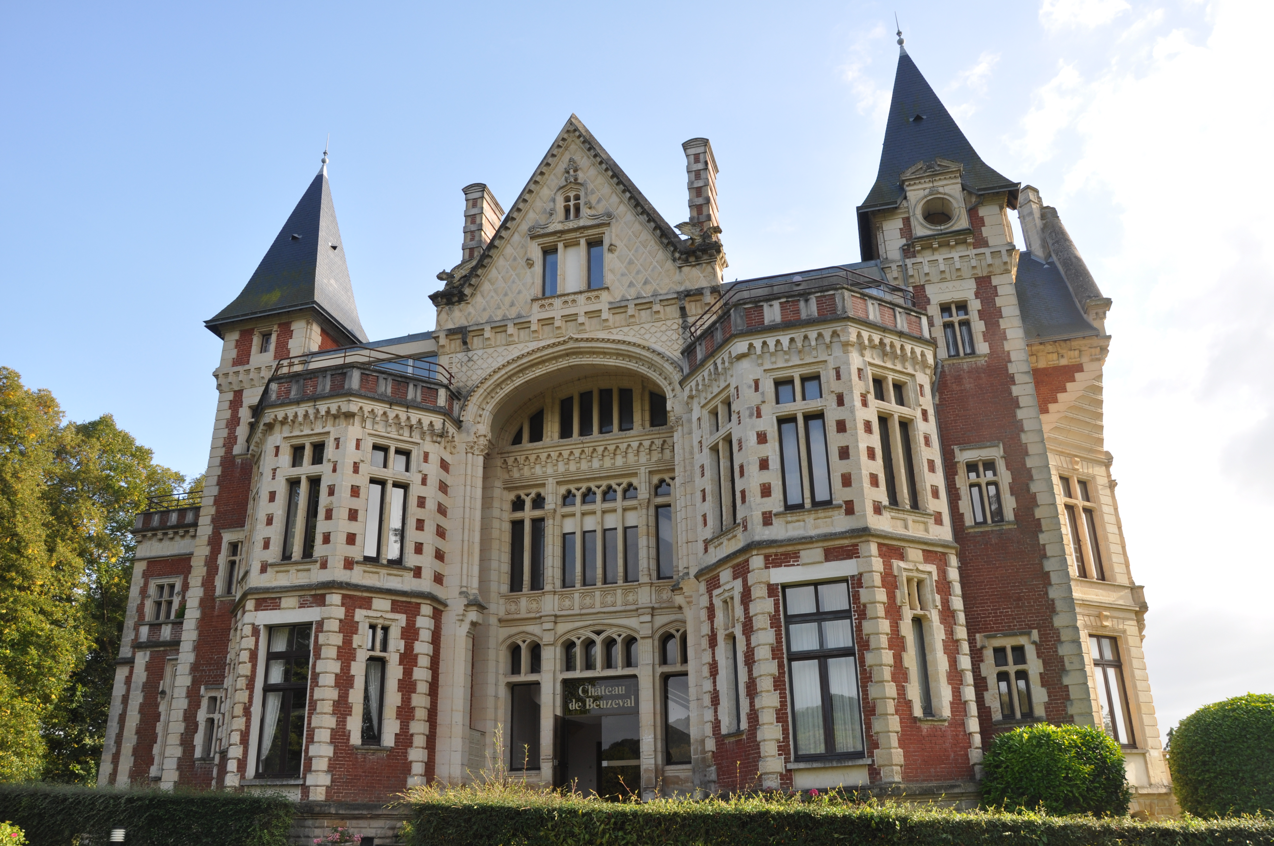 Houlgate (France, Normandy) Castle of Beuzeval